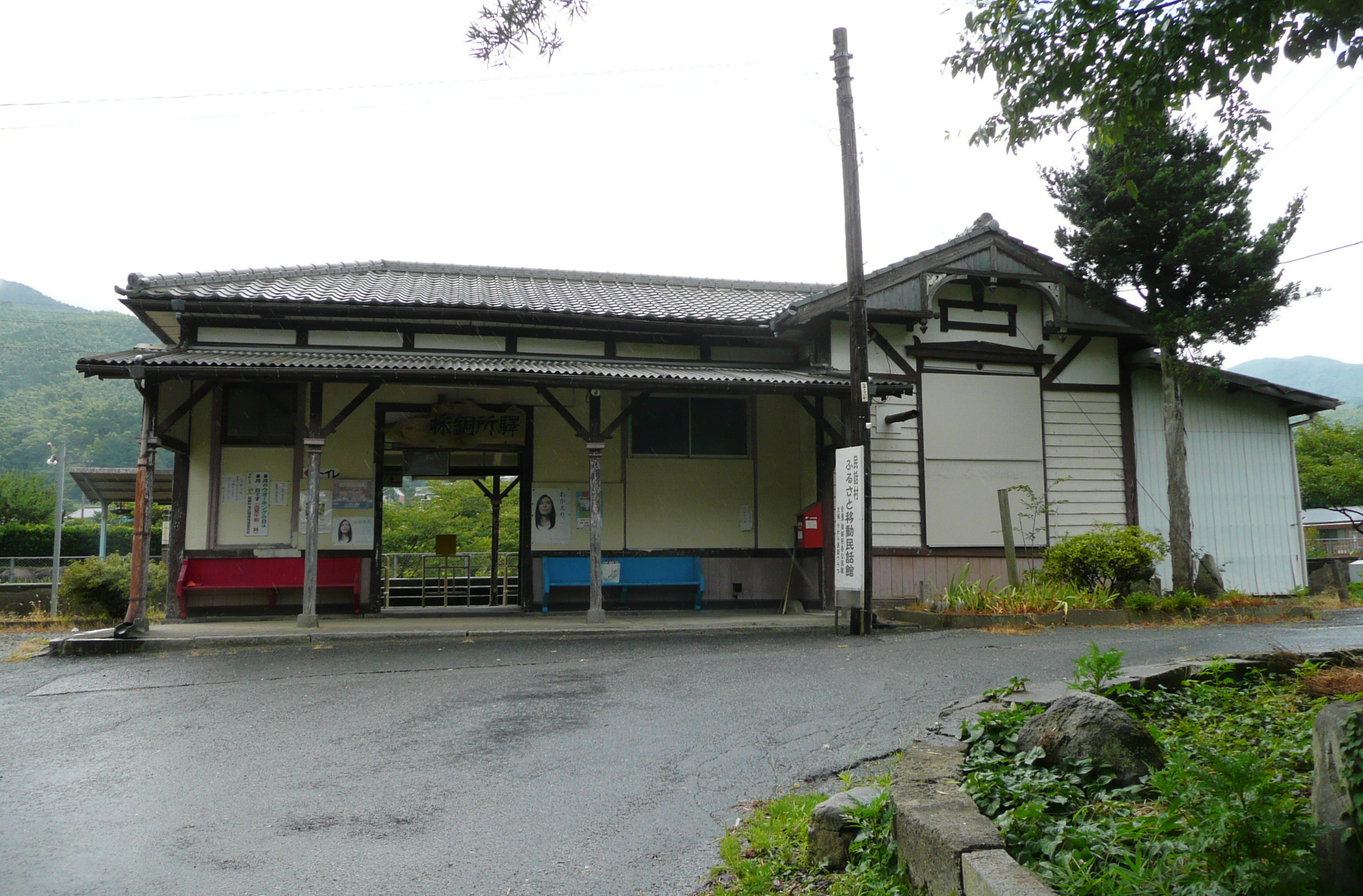 Saidosho Station, Hita-Hikosan Line.